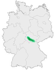 Location of Thuringian Forest in Germany